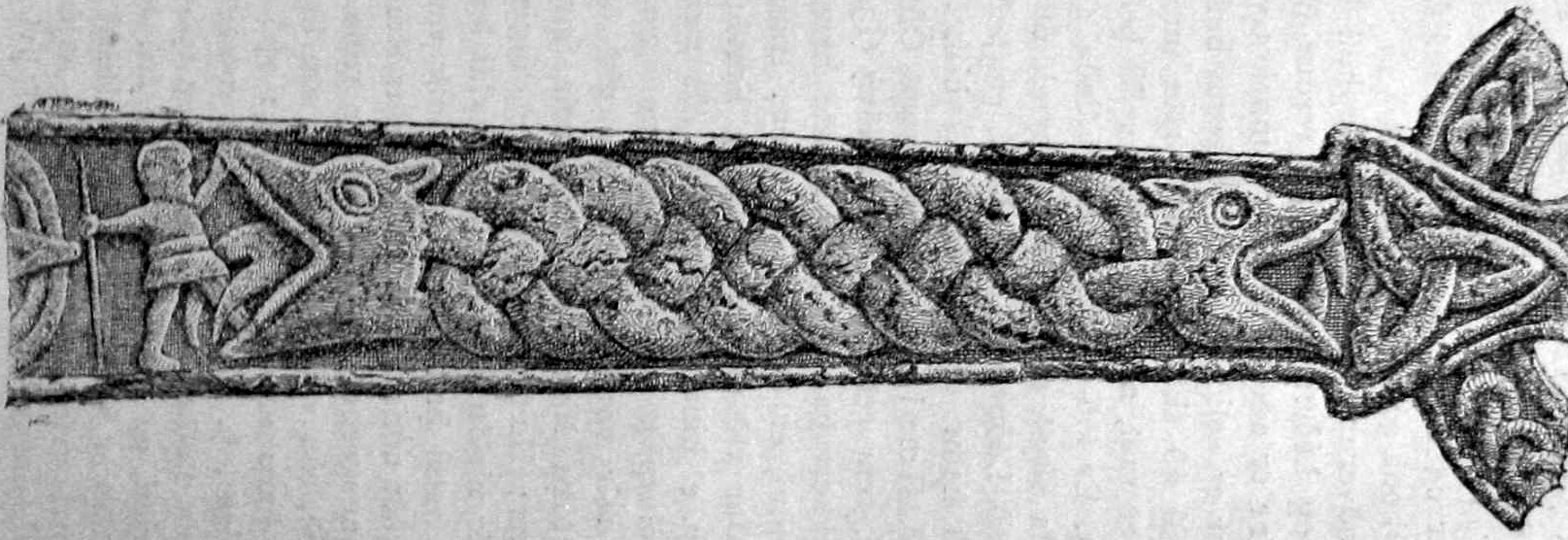 A part of the Gosforth Cross showing a humanoid figure tear apart the jaws of a monster. Usually interpreted to be Víðarr's battle with Fenrir at Ragnarök. Signed "M Petersen" in the upper left corner. It would seem that this is the upper part of the east-facing side of the shaft of the Gosforth Cross.